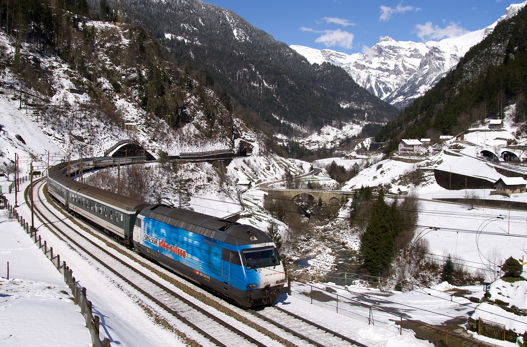 SBB Re 460 with advertisement for the swiss radio and television institution "SRG". The train is an Interregio train to Locarno, the picture was taken on the northern Gotthard ramp between Intschi (in the background) and Gurtnellen.